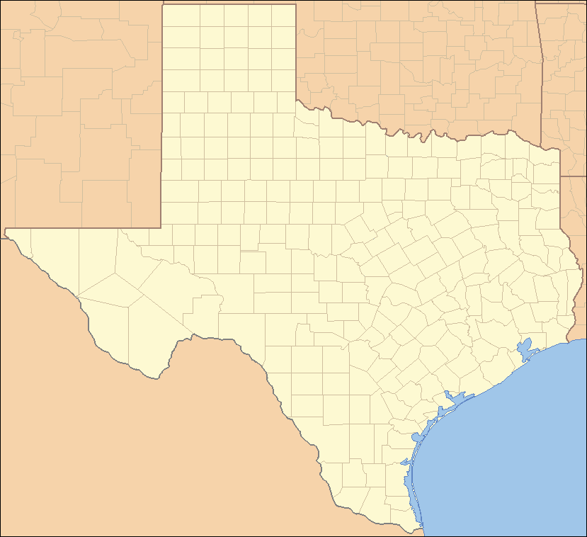 Locator Map of Texas, United States